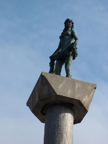 This is a picture of the Goddess Flora - goddess of spring and flowers. The statue is situated in Aalsmeer (Netherlands) and dates back to 1962. The statue is a work of Teun Roosenburg (1916 - 2004). Since the statue is in a public space, pictures can be made and used according to Dutch law.